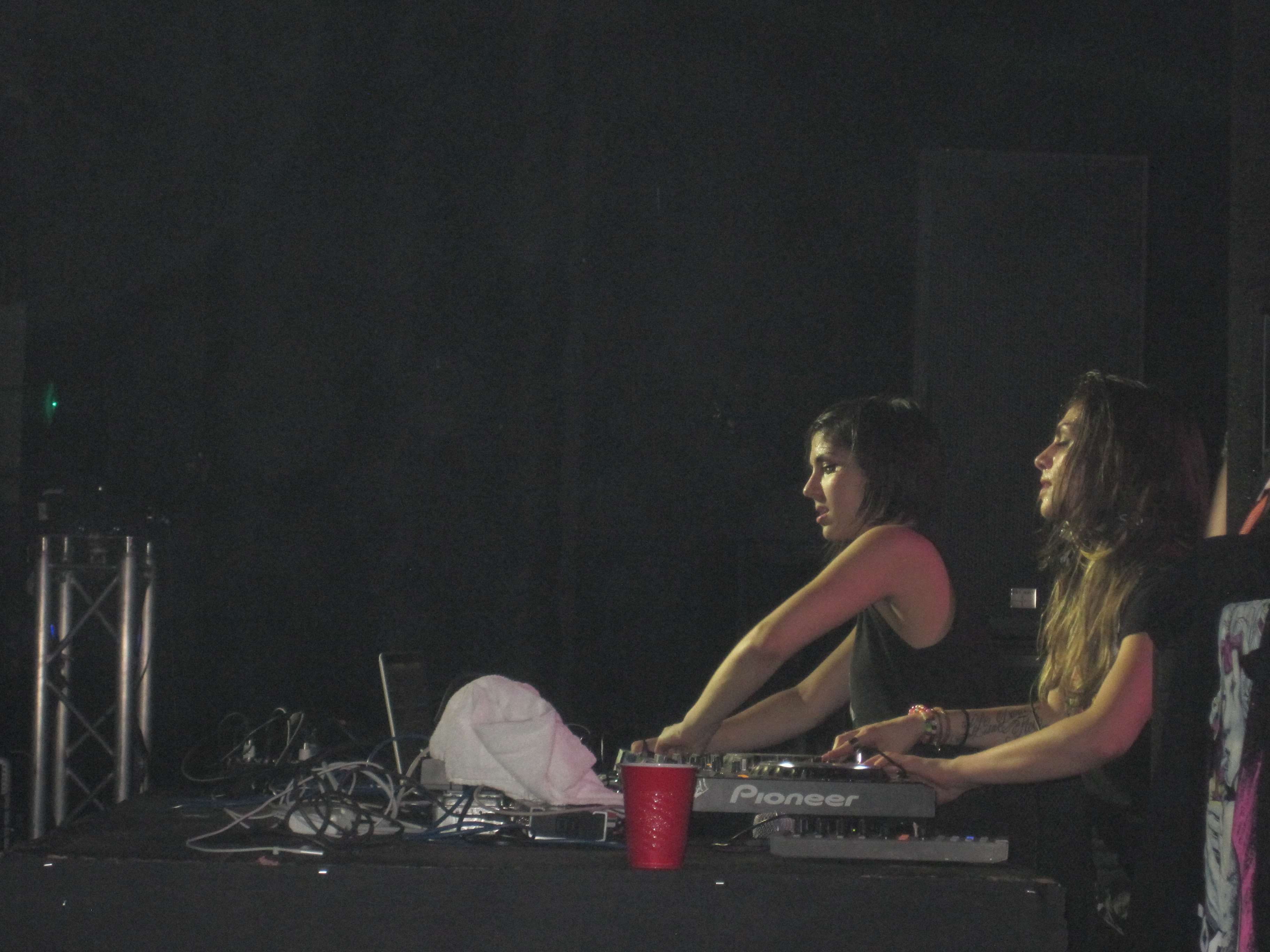 Krewella (from left to right: Yasmine Yousaf and Jahan Yousaf; not pictured: Kris "Rain Man" Trindl) performing at the Eagles Ballroom at the Rave/Eagles Club in Milwaukee, Wisconsin on Saturday, February 2nd, 2013.